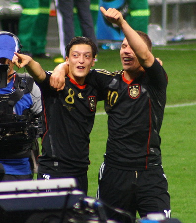 Mesut Özil and Lukas Podolski celebrating after winning Argentina